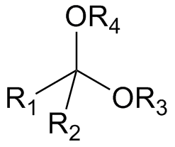 Ketal